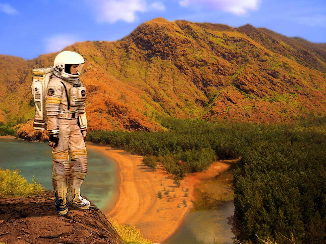 Terraforming